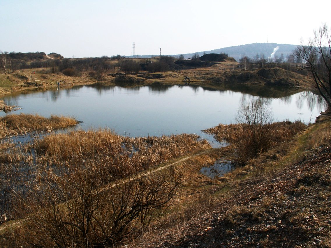 Old quarry Wietrznia in Kielce (Poland)